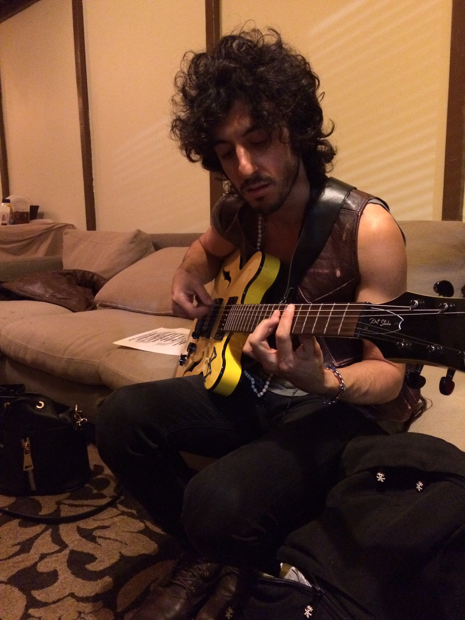 Jeff Kite backstage in Philly